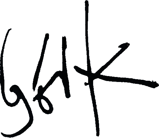 Signature of Björk.